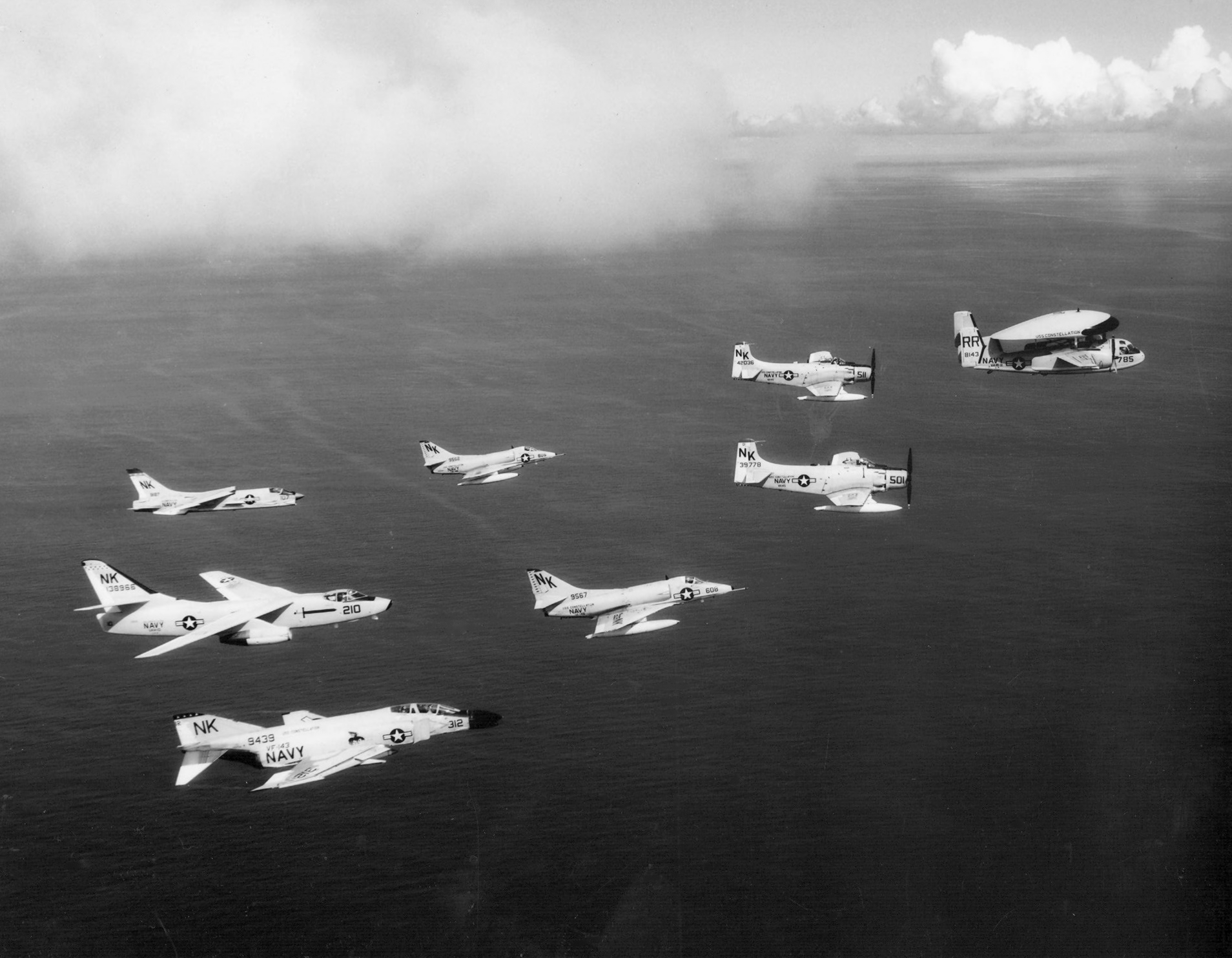 Aircraft of the U.S. Navy Attack Carrier Air Wing 14 (CVW-14) in flight in August 1963. CVW-14 was assigned to the aircraft carrier USS Constellation (CVA-64) for a deployment to the Western Pacific from 21 February to 10 September 1963. The following aircraft are visible (l-r): a McDonnell F-4B Phantom II (BuNo 149439, NK-312) from Fighter Squadron 143 (VF-143) "Pukin' Dogs"; a Douglas A-3B Skywarrior (BuNo 138966, NK-210) from Heavy Attack Squadron 10 (VAH-10) "Vikings"; a Vought F-8E Crusader (BuNo 149187, NK-107) from VF-141 "Iron Angels" (redesignated VF-53, 20 December 1963); two Douglas A-4C Skyhawk (BuNos 149562, NK-605; 149567, NK-608) from Attack Squadron 146 (VA-146) "Blue Diamonds"; two Douglas A-1 Skyraider (A-1H BuNo 139778, NK-501; A-1J BuNo 142036, NK-511) from VA-145 "Swordsmen"; a Grumman E-1B Tracer (BuNo 148143, RR-785) from Airborne Early Warning Squadron 11 (VAW-11) Det.F "Early Eleven".